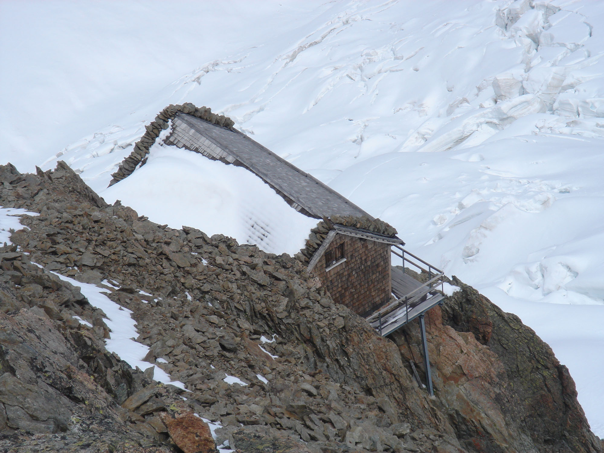 Bergli hut SAC